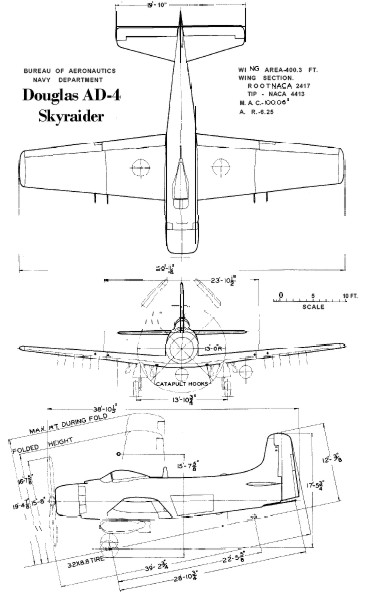 3-side-view of a Douglas AD-4 Skyraider